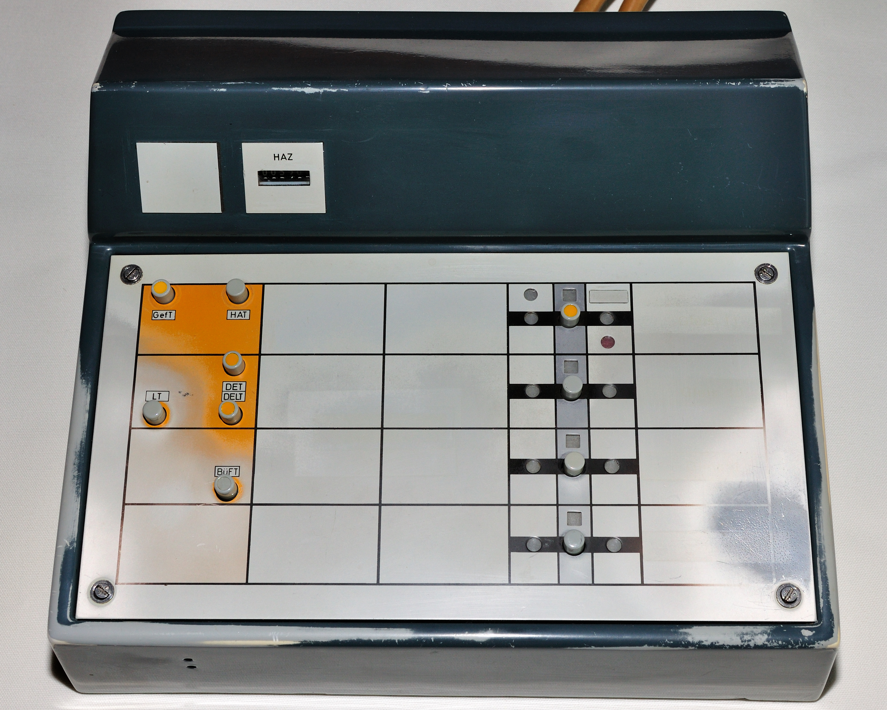 Control board of a railway crossing that is supervised by an attendant. At the left in the yellow area are the group keys to control various functions, on the right are shown schematically the four tracks of the railway crossing (black) and the road (gray). Function: A nearby signal box placed a route over the crossing, the sqare light ist blinking, the round lights are on, the barrier is closing. The attendant verifies that the crossing are clear, than he press the BüFT along with the track key. The Signal switches to green an the train can pass. After the train passed the crossing, the lights go out and the barrier opens. Functions of Keys: GefT - Emergency key, switches all signals in the area to red. HAT - With this key it is possible to open the crossing in special situations, this is a risky funktion therefore they must be documented and be counted (HAZ). LT - Turns off the automatic closing. DET - Switch to close the crossing permanently. DELT - Switch to delete the permanently closing. BüFT - Reports the crossing free and secure for a train passage.